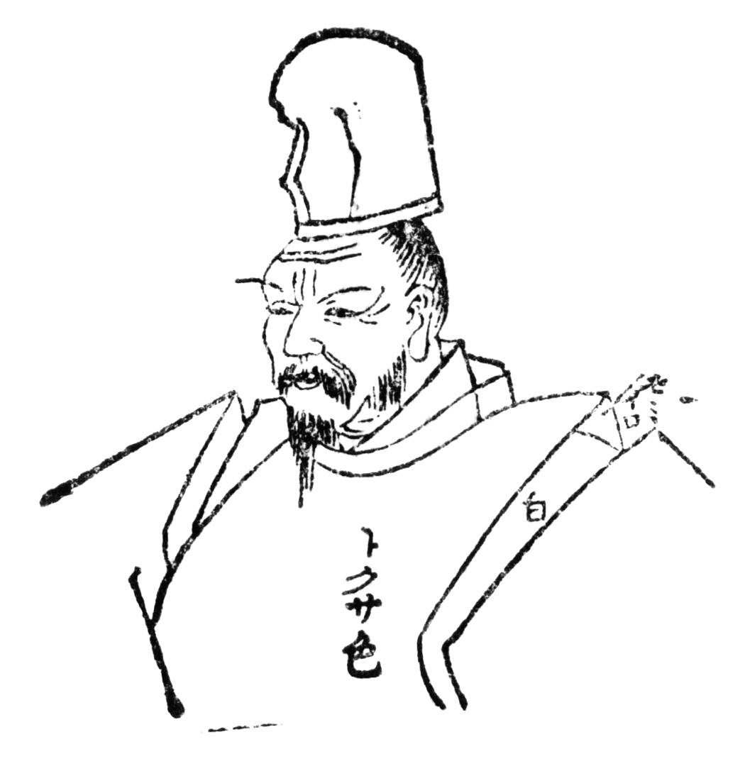 Portrait of Hōjō Yasutoki